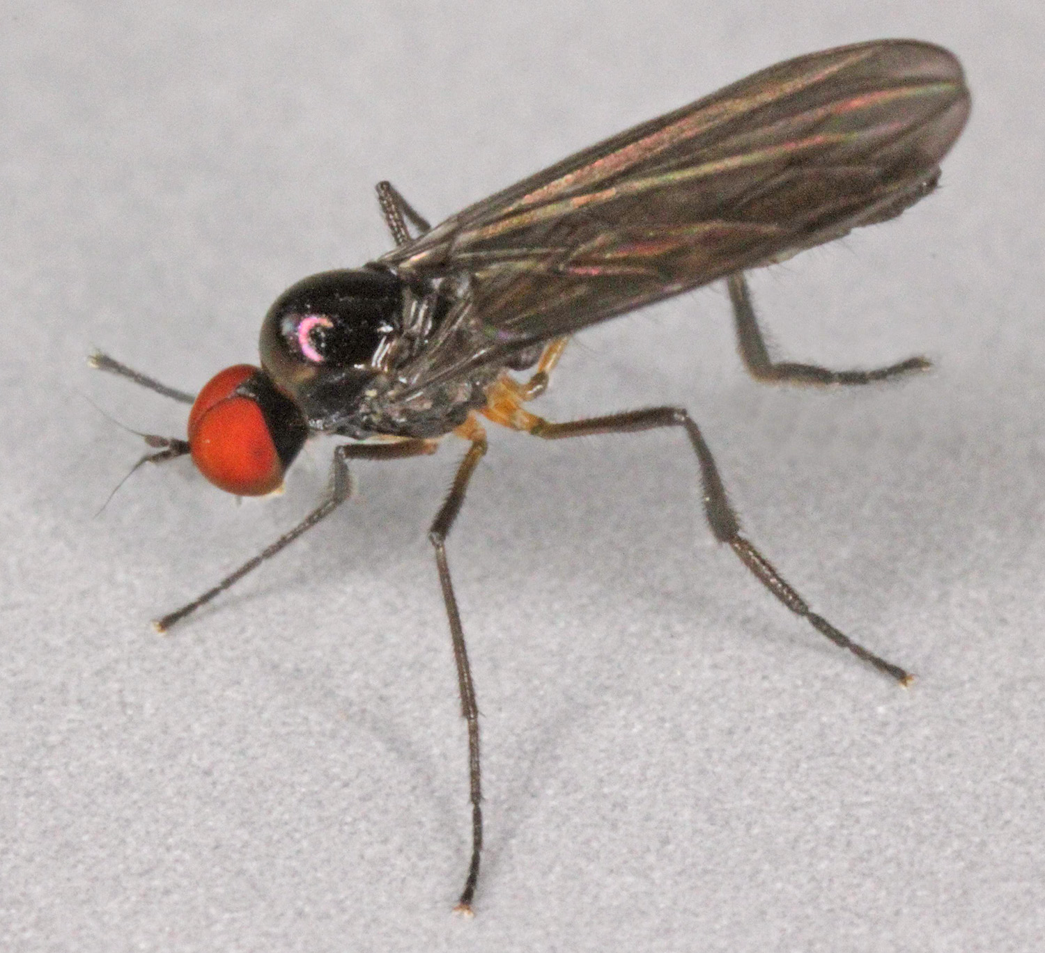 Ocydromia glabricula, Eyarth Rocks, North Wales, May 2012